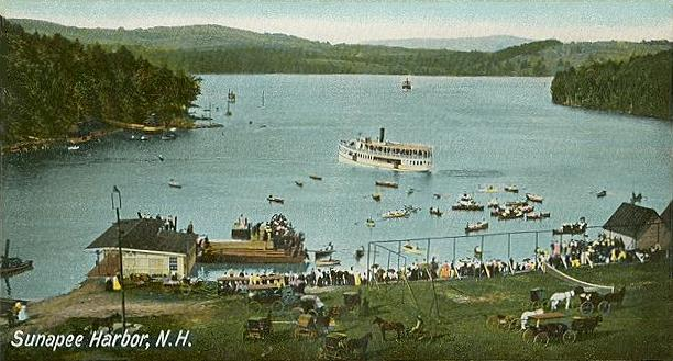 Bird's-eye View, Sunapee Harbor, NH; from a c. 1905 postcard.